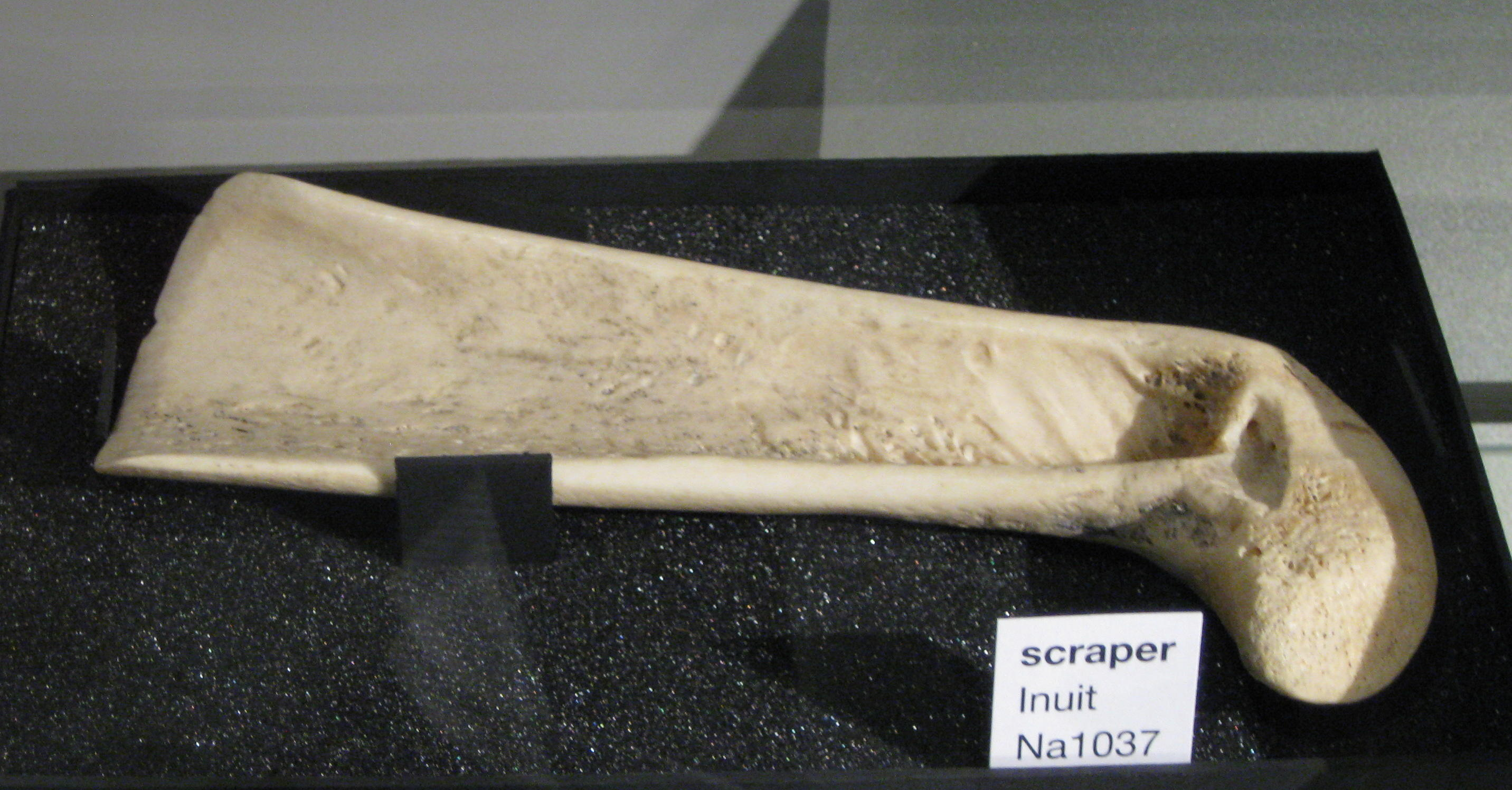 An Inuit scraper on display at UBC's Museum of Anthropology in Vancouver, Canada. Its catalogue number is Na1037.